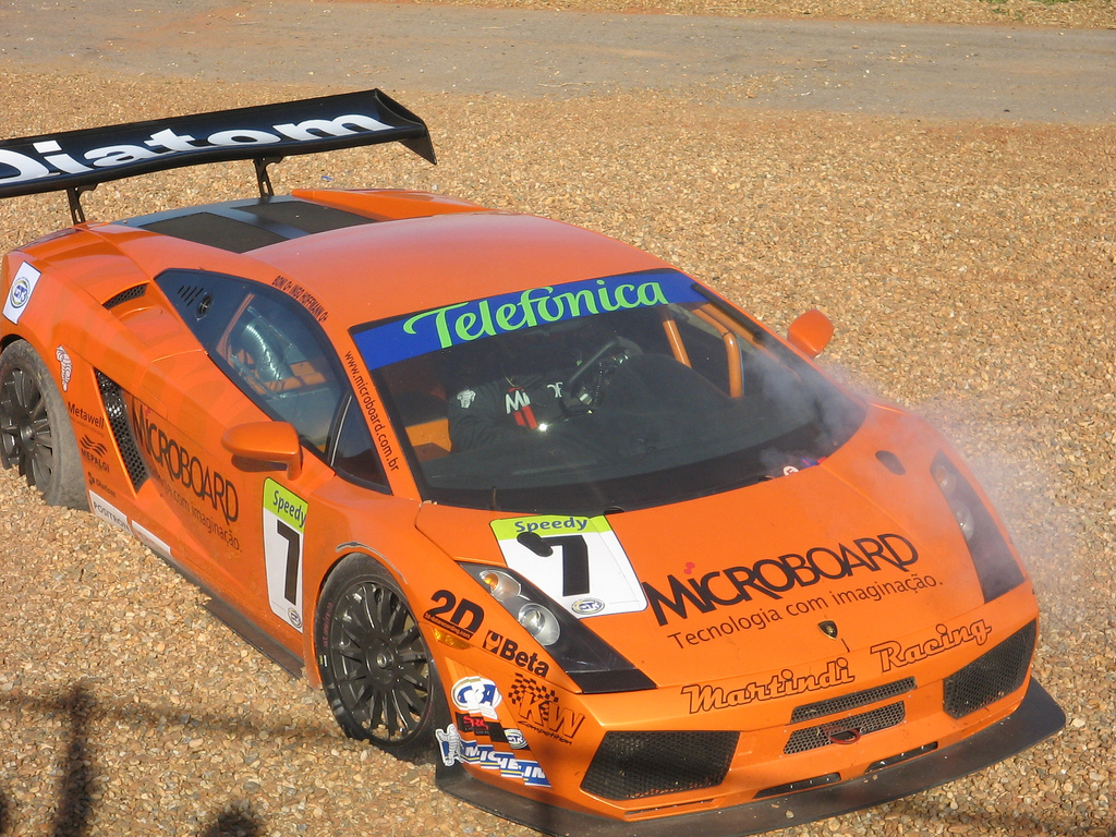 Lamborghini Gallardo for the race in Brasília of GT3 Brazil.